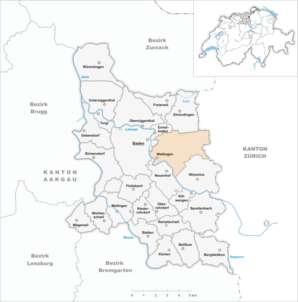 Municipality Wettingen